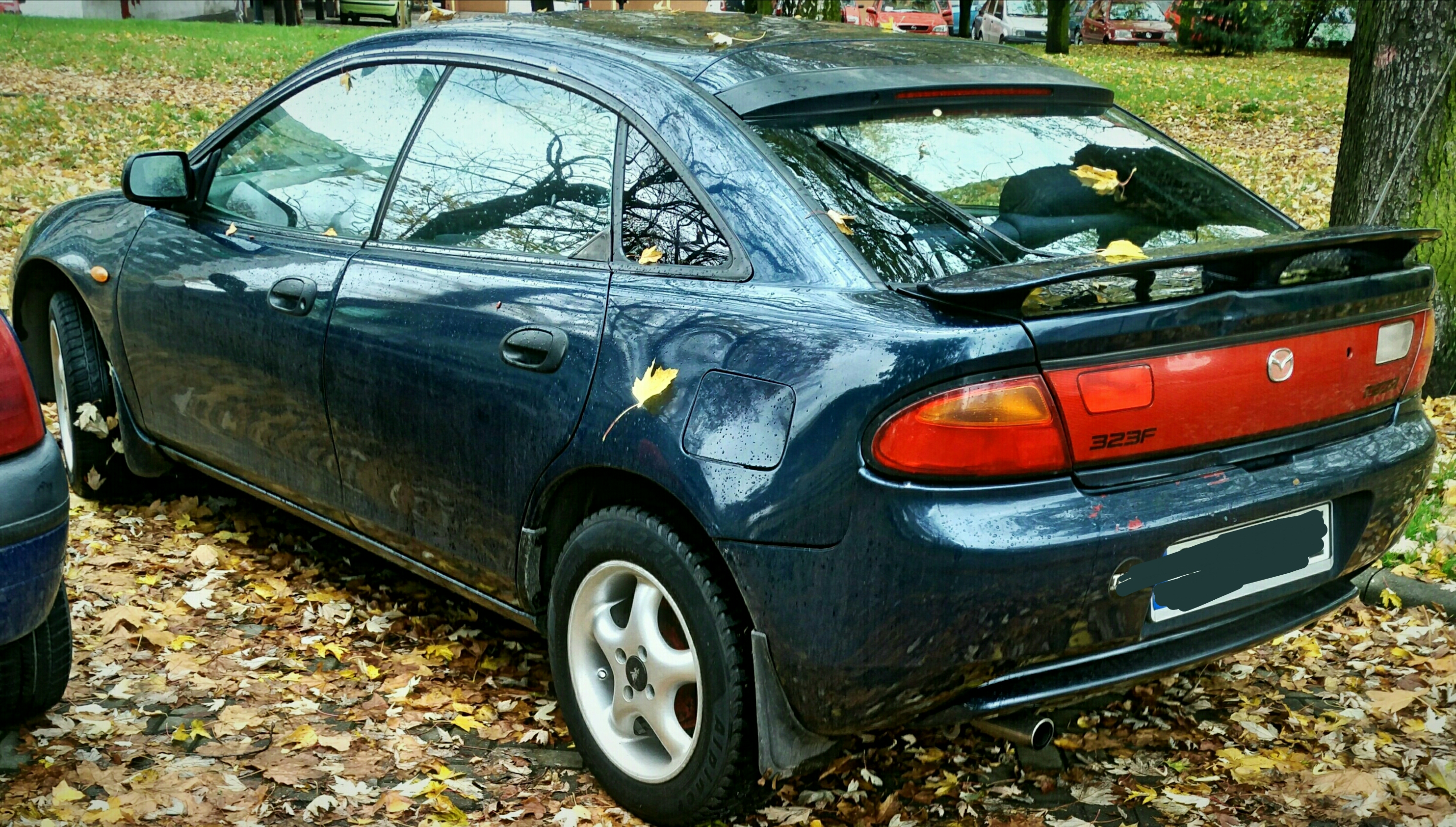 Mazda 323F (BA), Poland